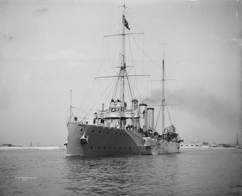 Photograph of British cruiser HMS Amethyst.